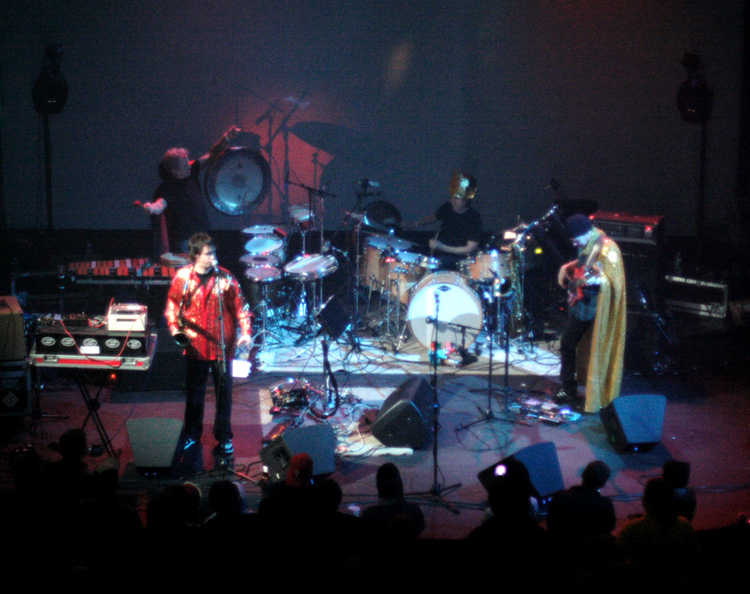 Critters Buggin New Years Eve 2008 at the Capitol Theatre in Olympia, Washington. Left to right: Mike Dillon (percussion), Skerik (saxophone, keyboard), Matt Chamberlain (drums), Brad Houser (bass)